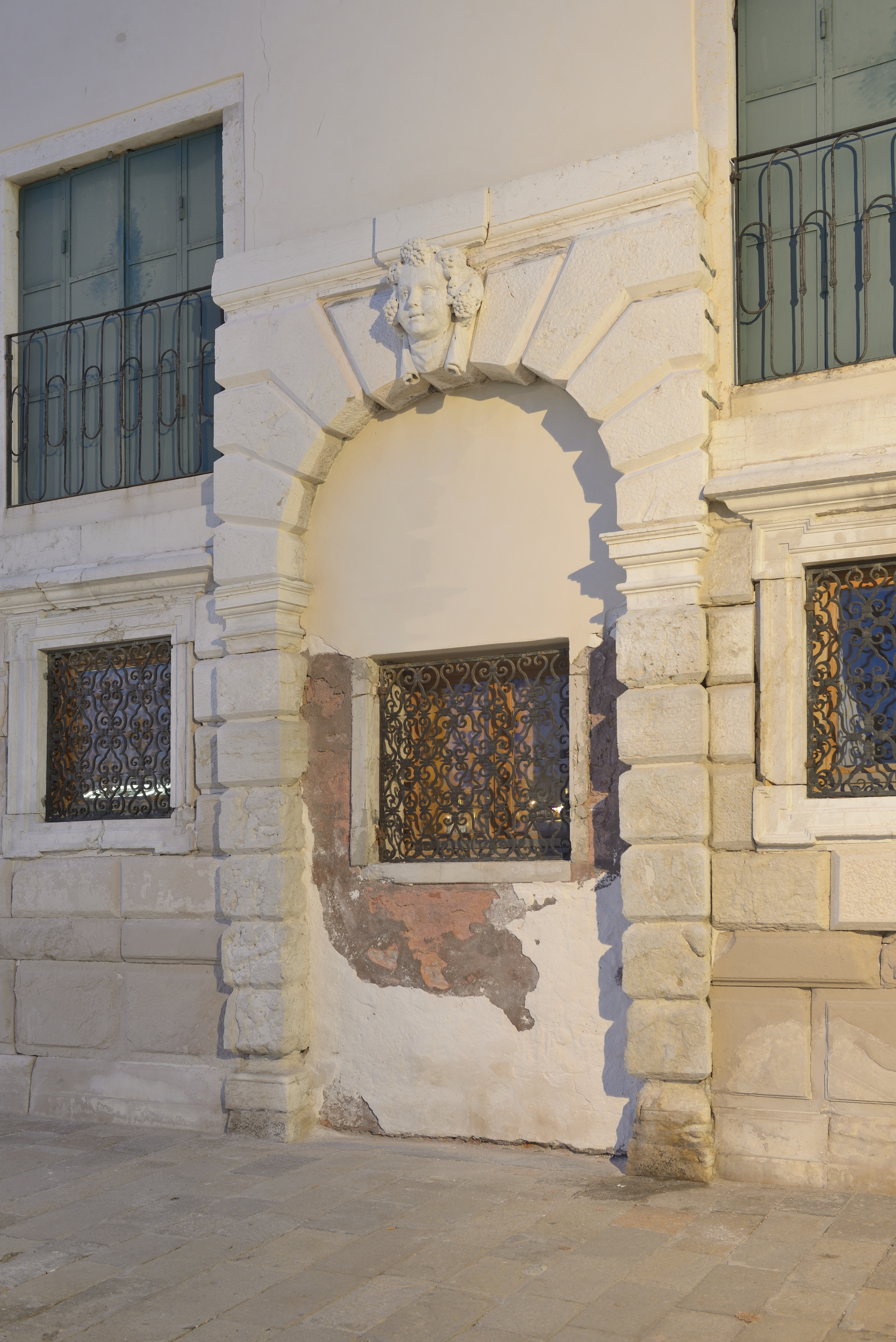 Arch and mascaron on Accademia di belle arti di Venezia in Venice at night